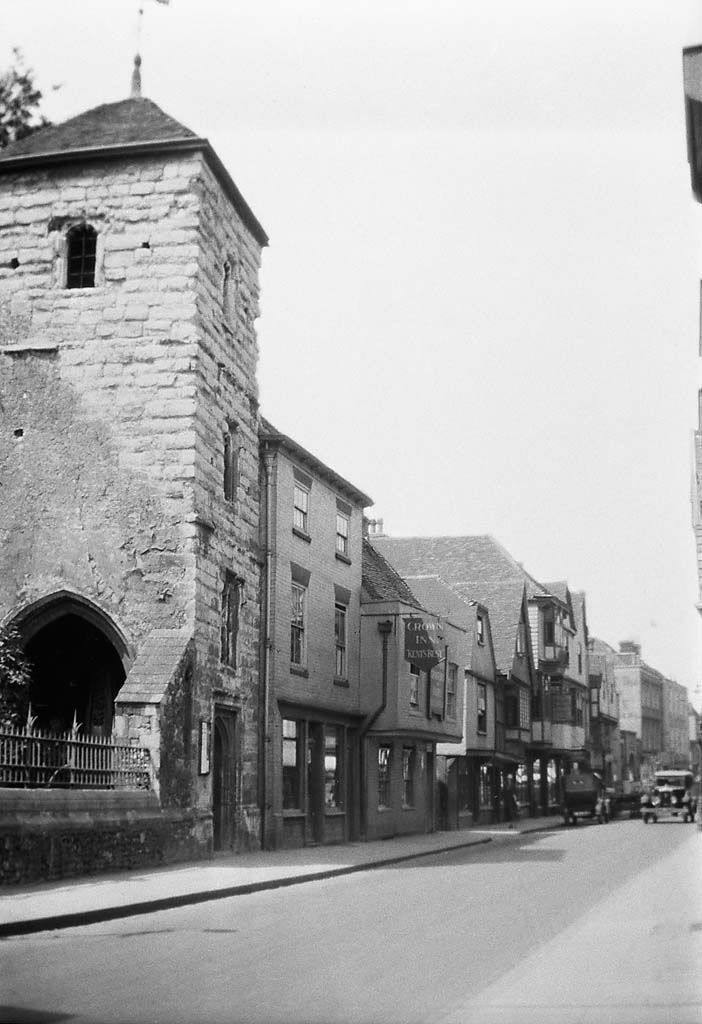 Burgate in Canterbury. To the left is the tower of St. Mary Magdalene church. The tower was built in 1503. The rest of the medieval church was demolished in 1871. Burgate i Canterbury. Till vänster är tornet till kyrkan St. Mary Magdalene. Tornet byggdes 1503. Resten av den medeltida kyrkan revs 1871. Location: Canterbury, Kent, South East England, Great Britain, United Kingdom Photograph by: Berit Wallenberg Date: 23.05.1929 Format: Film Persistent URL: Read more about the photo database (in english)